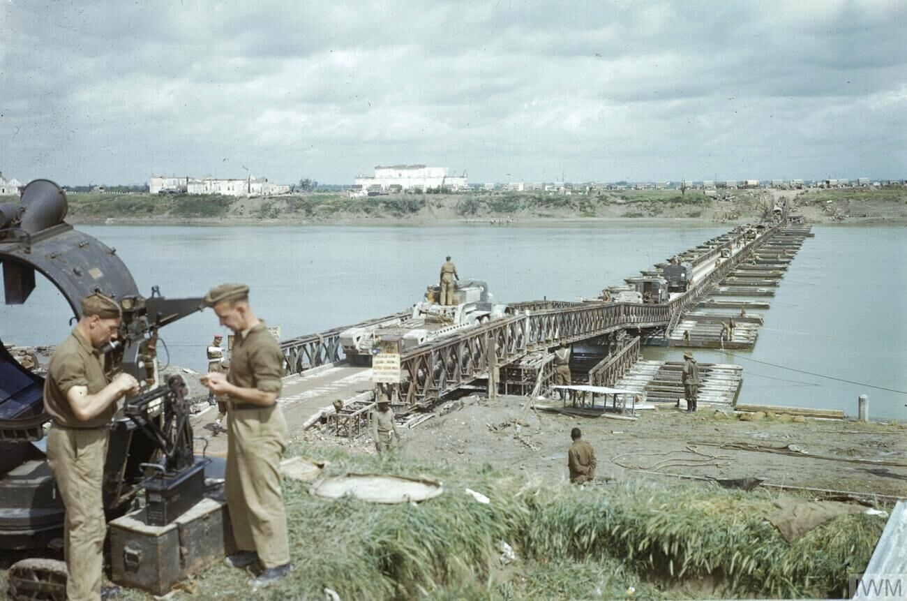 British Eighth Army Troops Crossing the River Po, Beyond Ferrara, Italy, 28 April 1945 British Eighth Army traffic crossing the first pontoon Bailey bridge, constructed by the Royal Engineers, over the River Po. In the foreground men of the Royal Artillery are constructing a searchlight to facilitate night time use of the bridge.